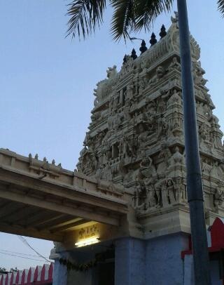 Varadaraj Temple, in Kuppam , India